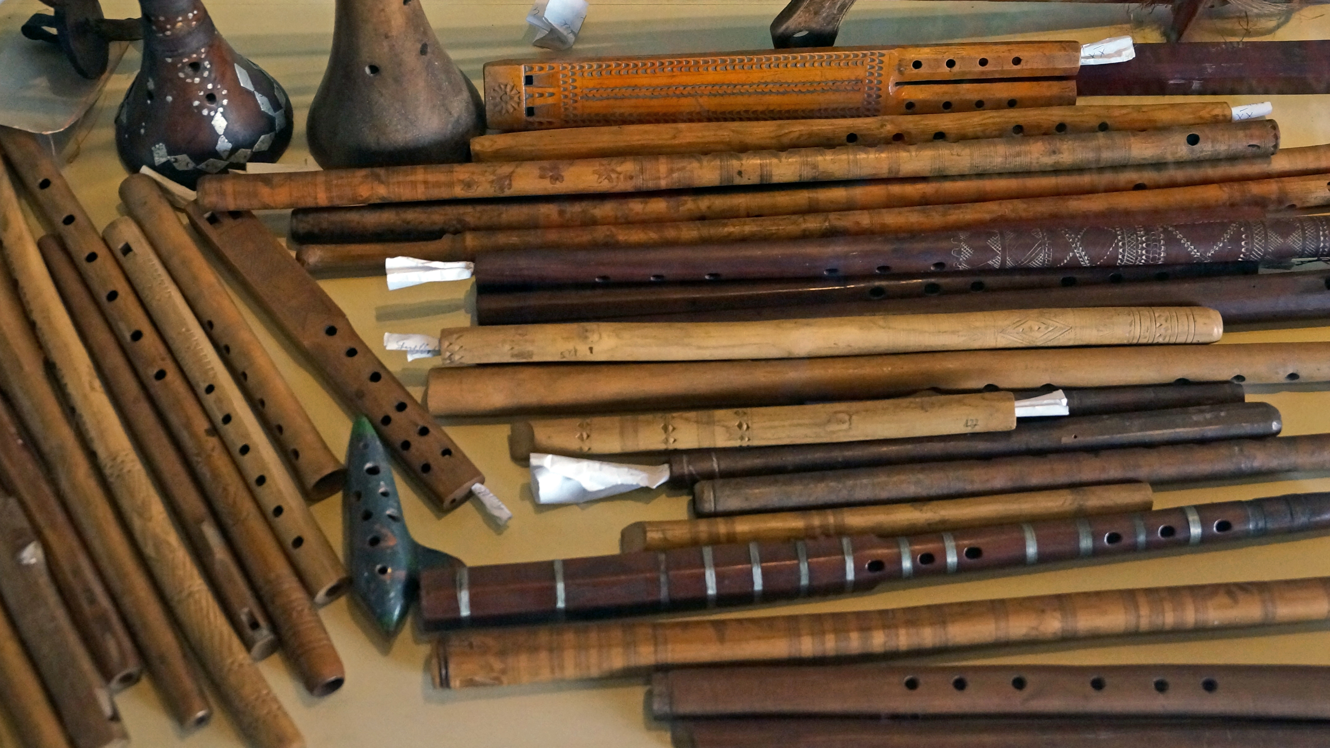 Flutes at Ethnological Museum, Prishtina